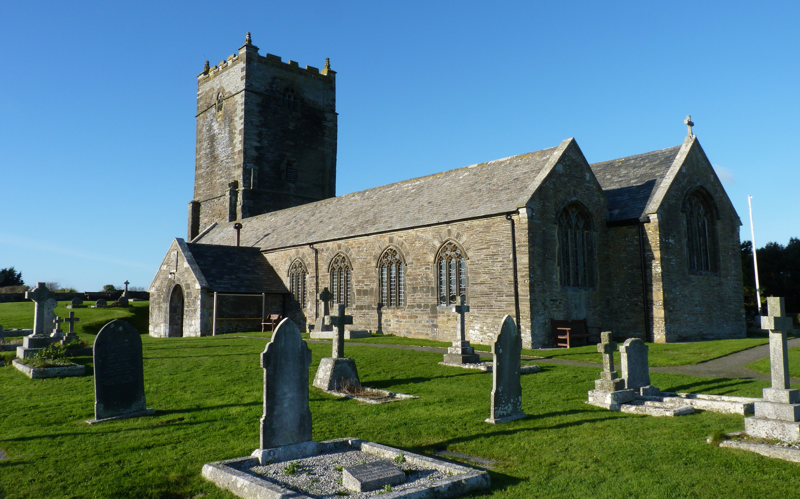 St. Merryn's church, St. Merryn, near Padstow